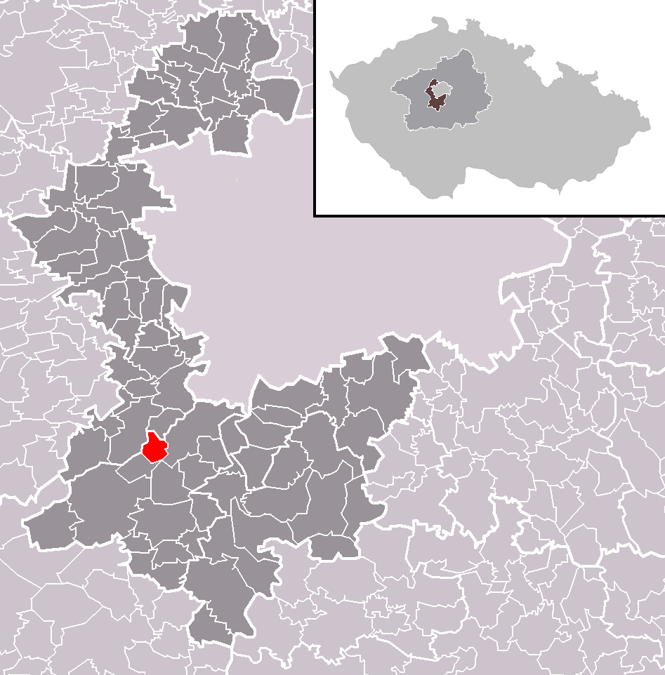 Location of Černolice municipality within Prague-West District and administrative area of Černošice as a Municipality with Extended Competence.